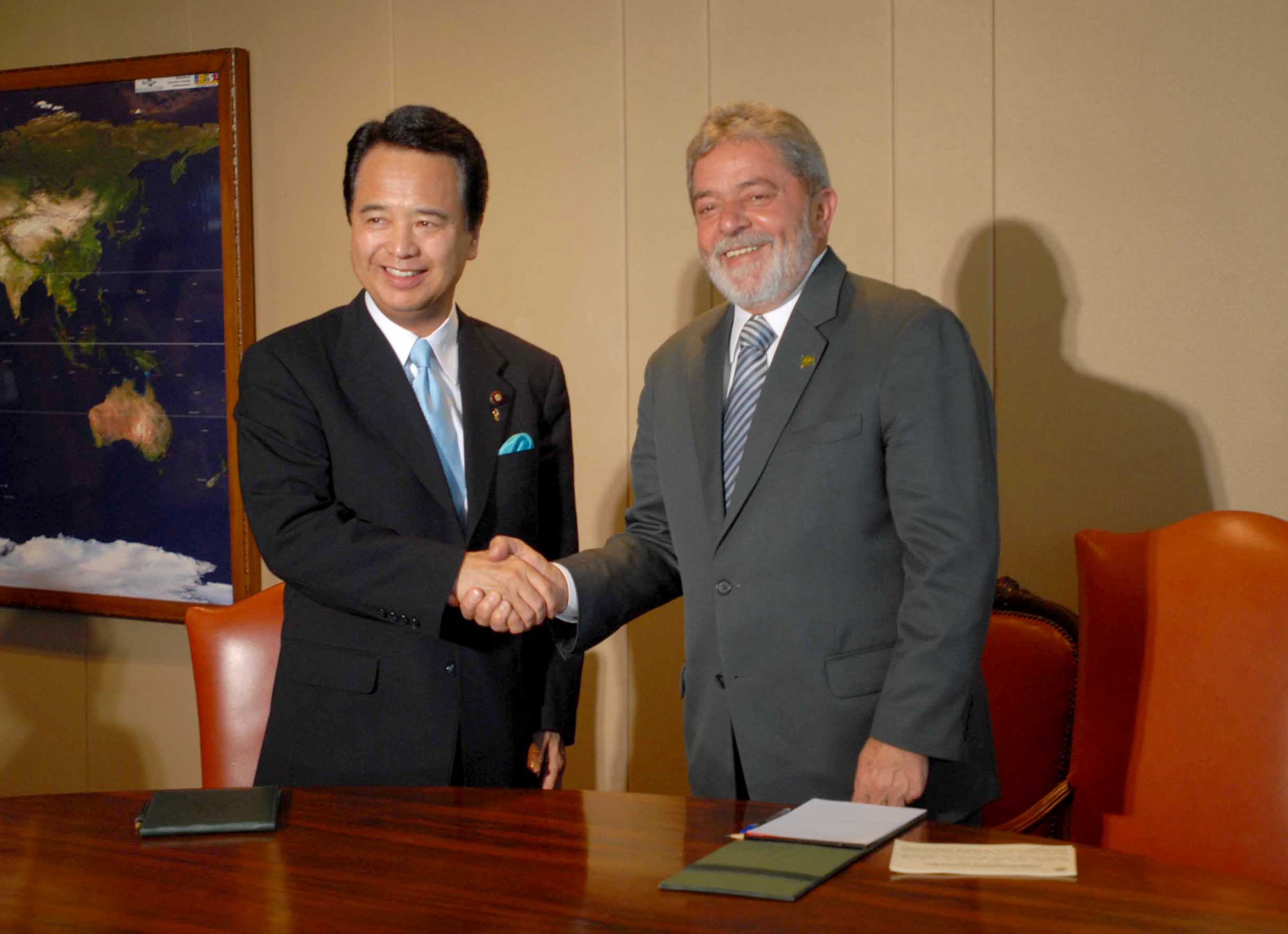 Minister of Economy, Trade and Industry Akira Amari and President Luiz Inácio Lula da Silva shake hands at the Palácio do Planalto in Brasília City, Brazilian Federal District on July 2, 2008.